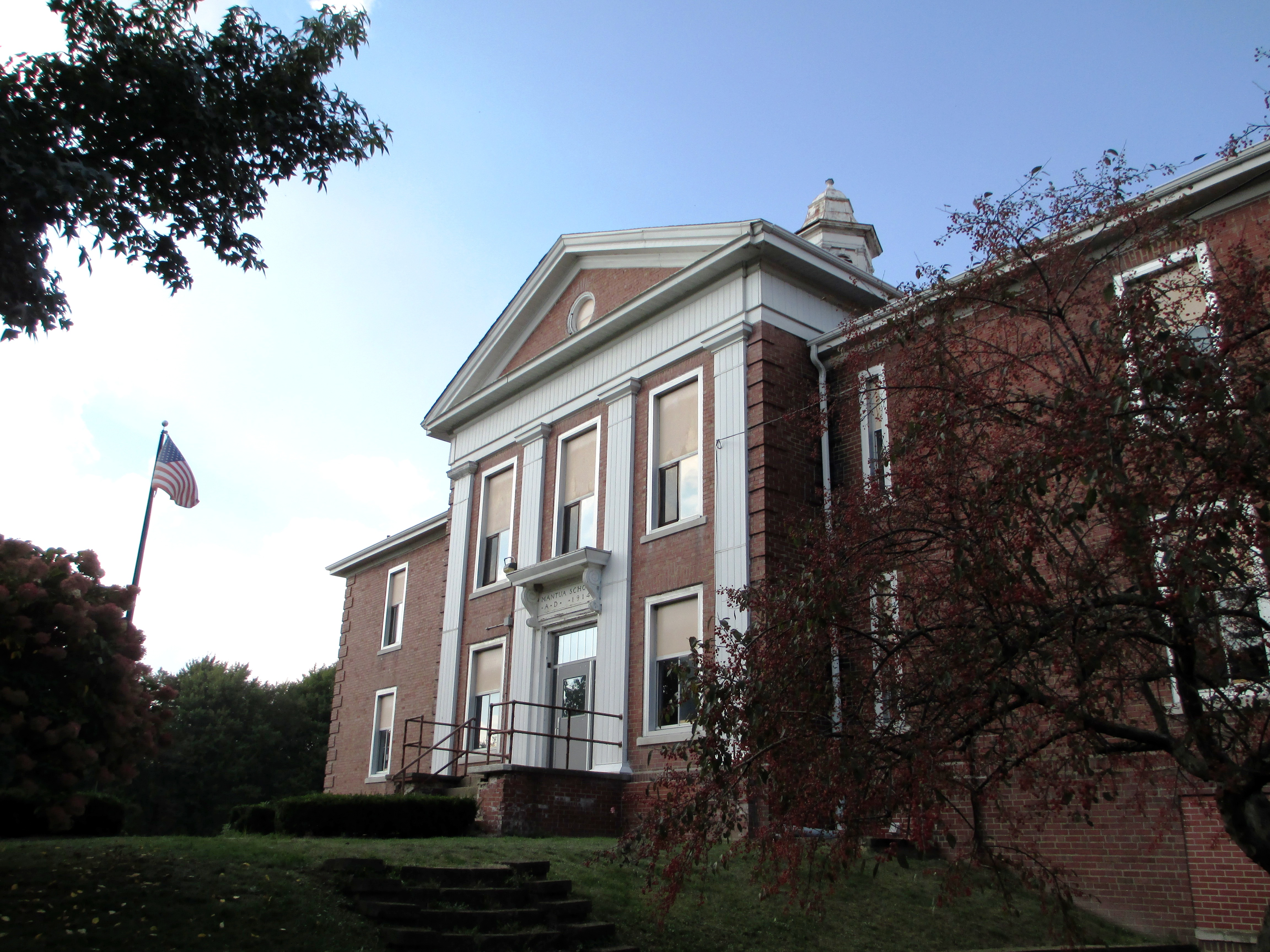 South (front) facade of the Mantua Center School in Mantua Township, Ohio, United States.